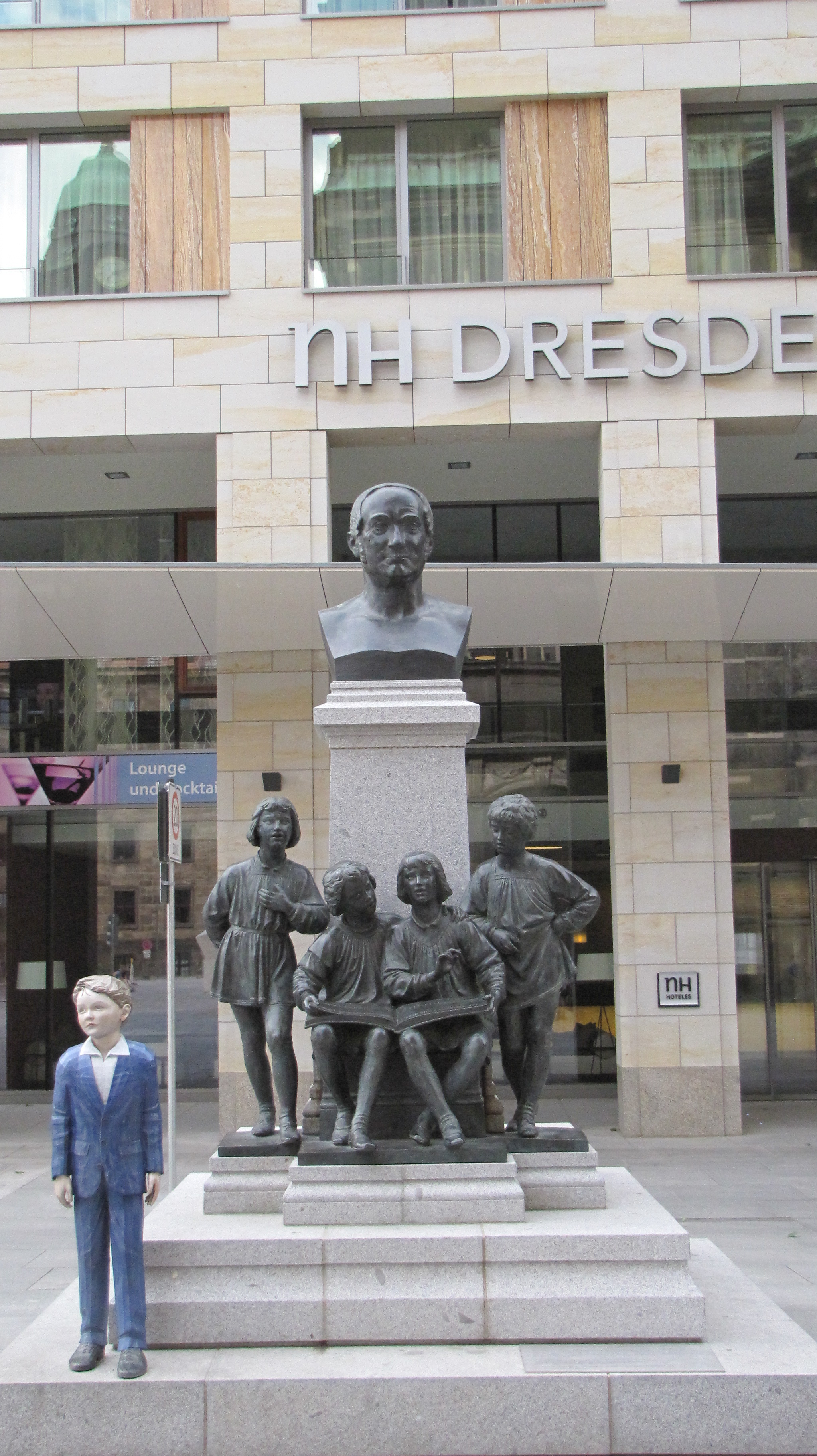 Monument for Ernst Julius Otto in front of the Kreuzkirche, Dresden; original by Gustav Kietz (1886), reconstruction and enlargement by Niklas Klotz, 2010